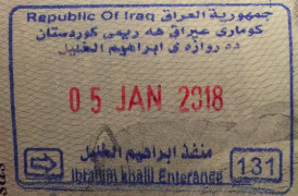 Entrance stamp at Ibrahim Khalil Entrance (2018) American passport